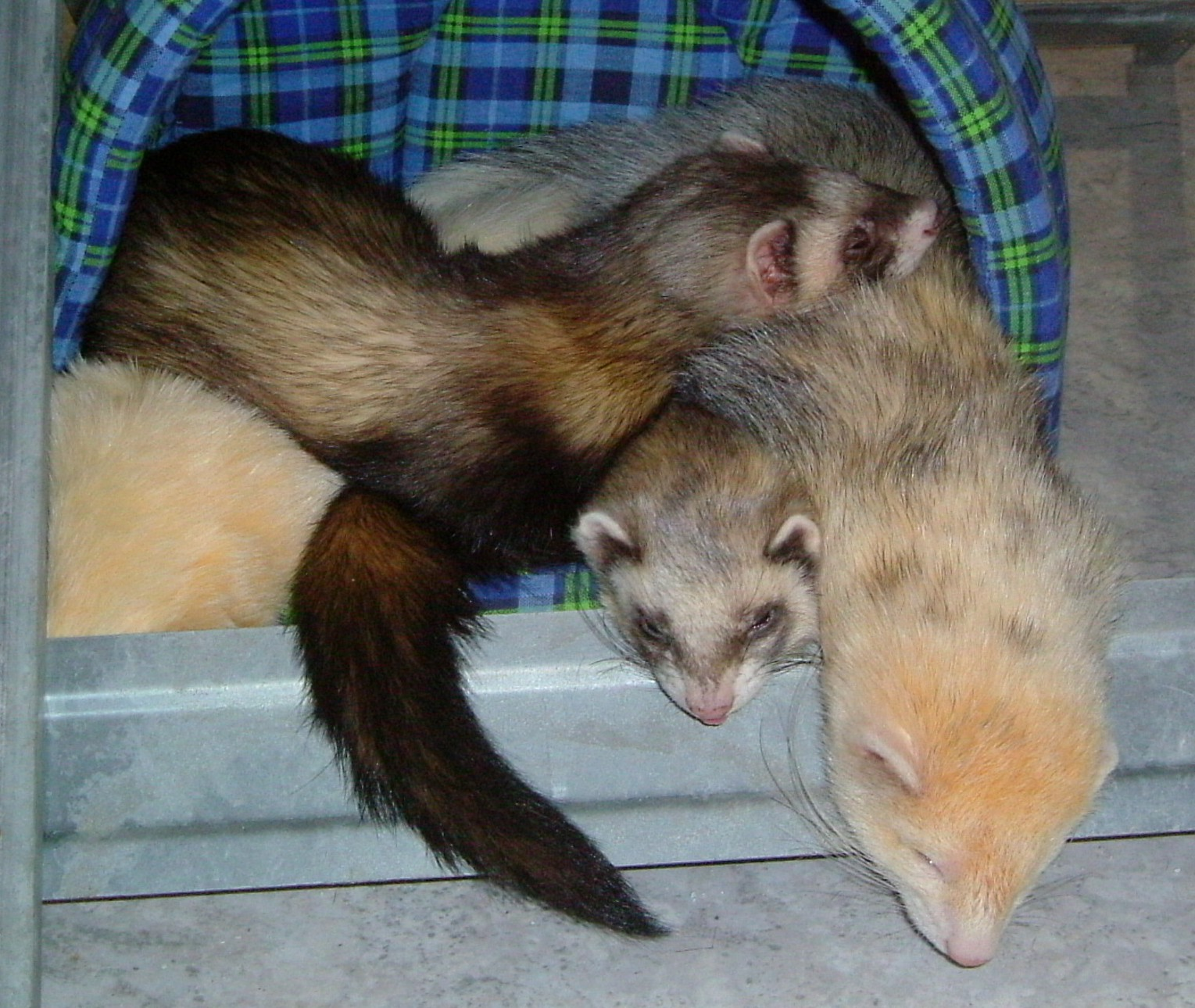 Domestic ferret (Mustela putorius furo). Ferrets, sleeping, male.